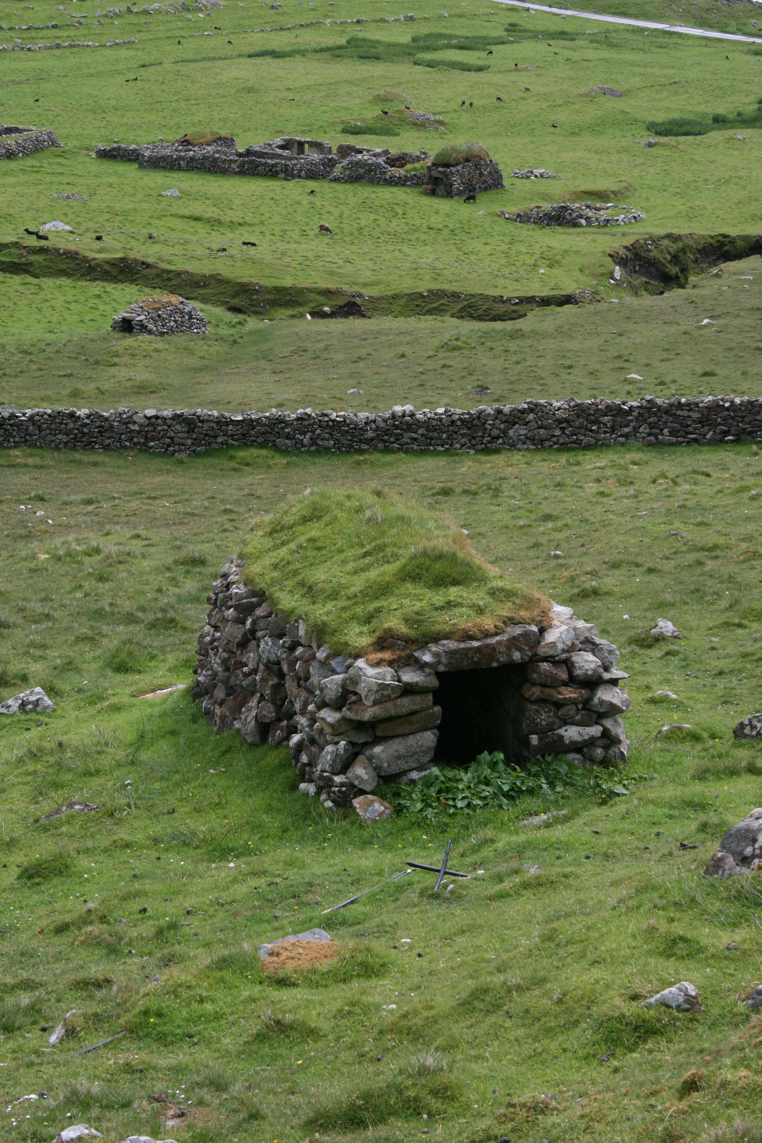 Dry stones bothies and walls at Village Bay in Hirta, St Kilda